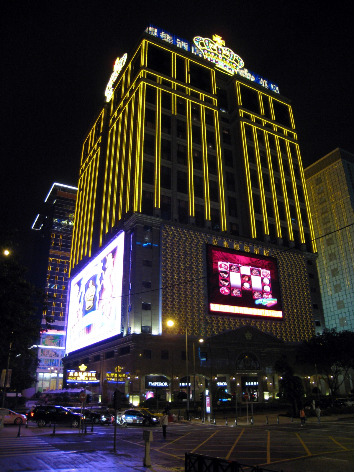 Grand Emperor Hotel 英皇娛樂酒店 (澳門)